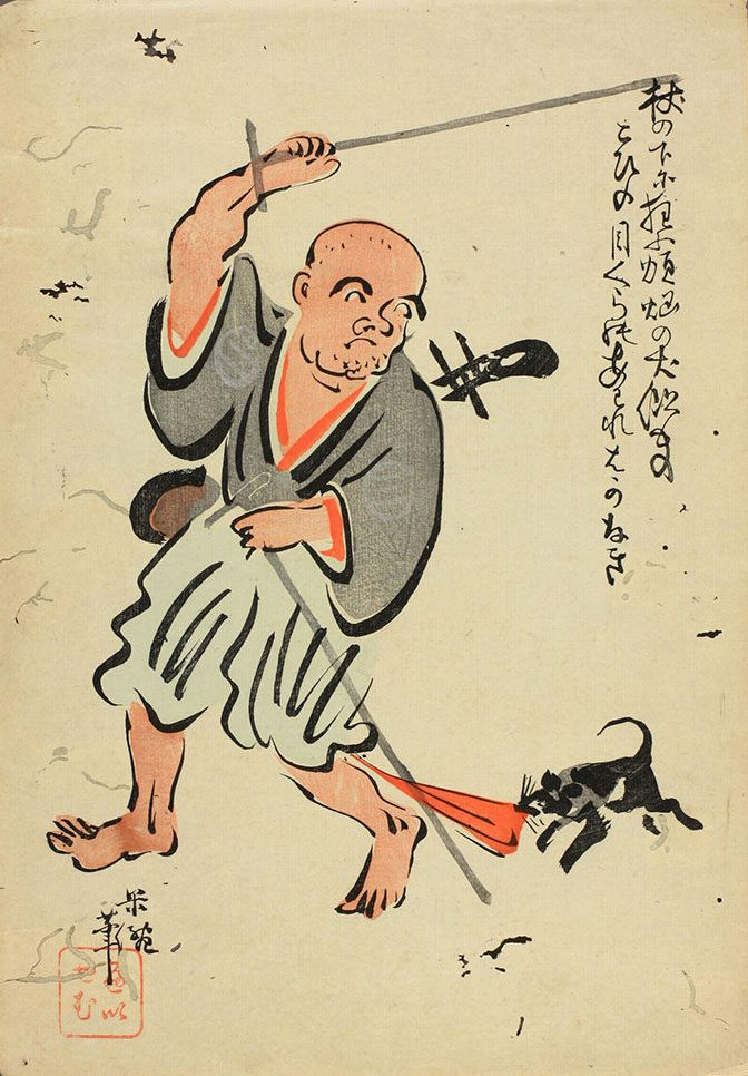 Japanese folk painting of the Otsu-e genre, representing a blind man with a crutch fending off a dog that is pulling at his clothing. This represents the need for moral caution.